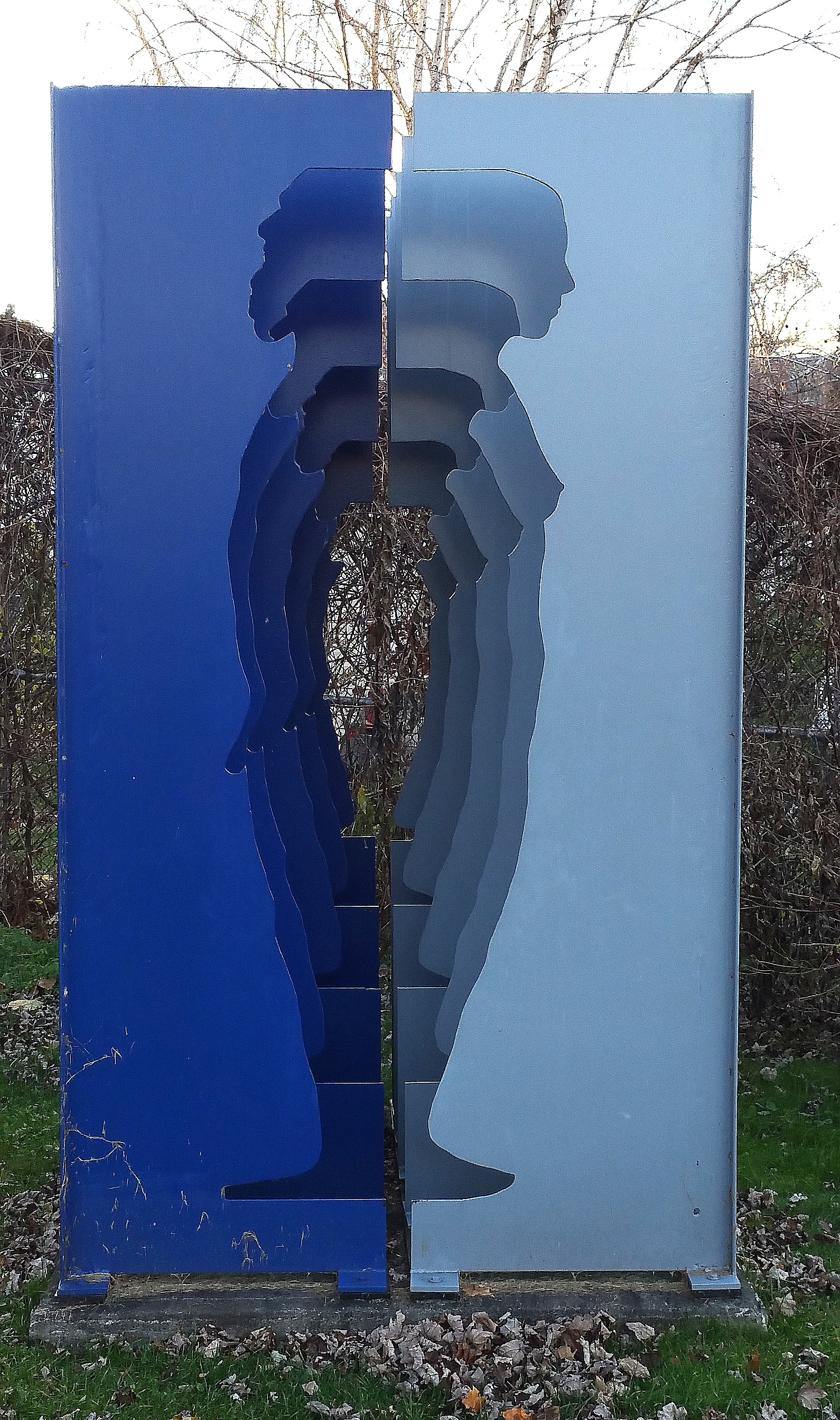 Sculpture's Garden, Lachine Museum, Montreal, Quebec